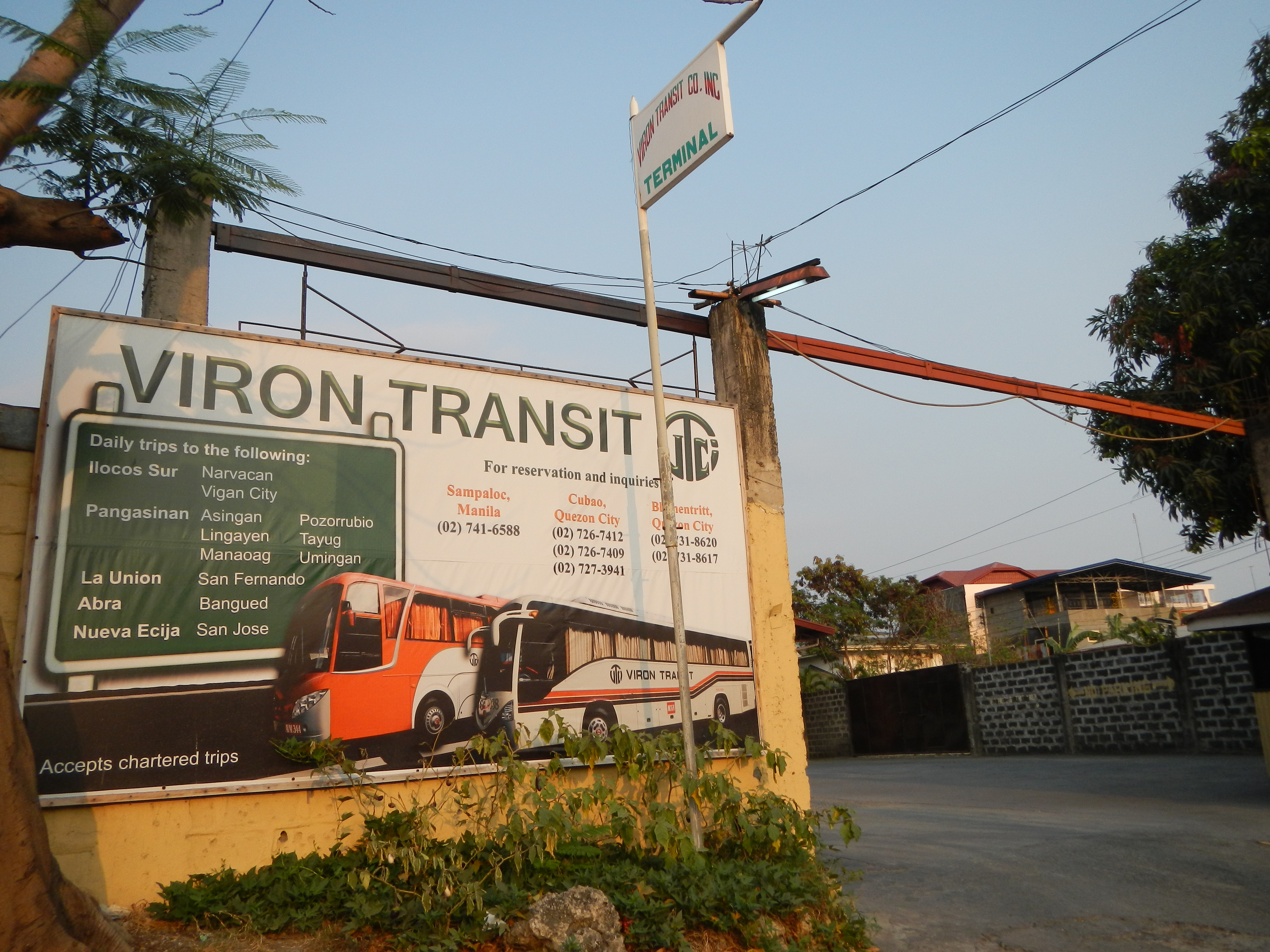 Viron Transit bus stop at the National Higway at San Fenando City La Union.